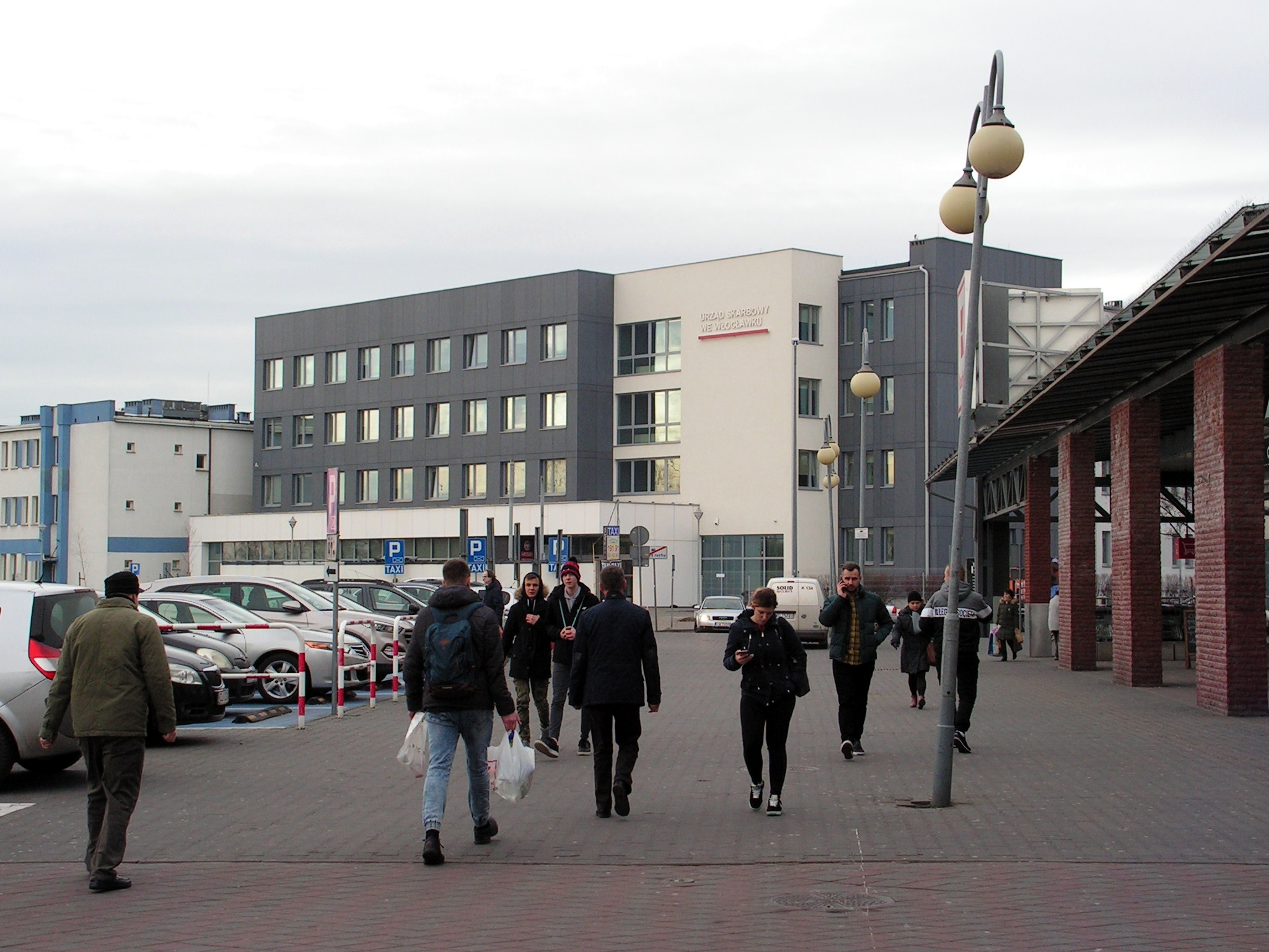 Tax Office in Włocławek, view from the Wzorcownia Shopping Centre.